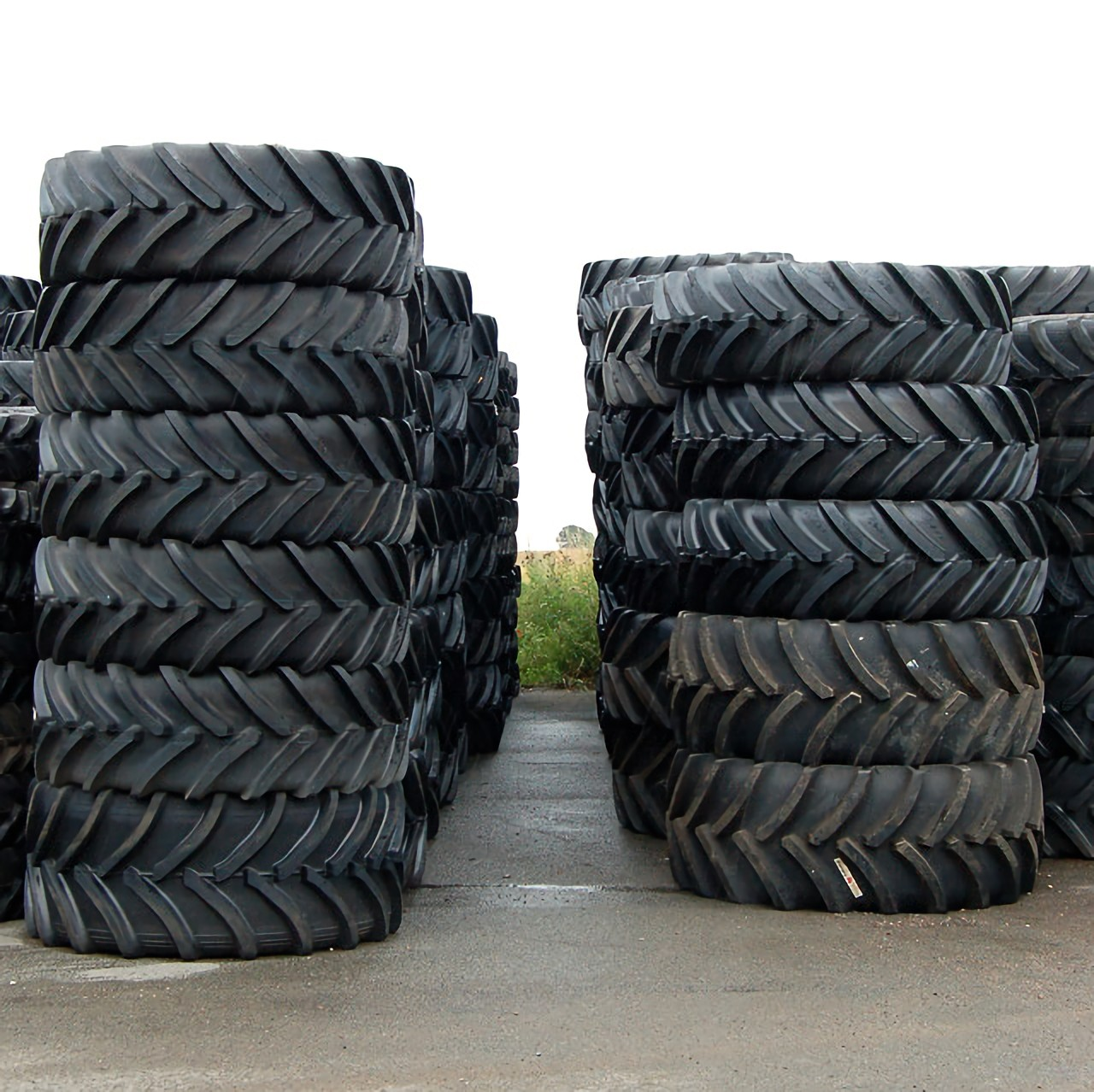 A stack of tractor tyres